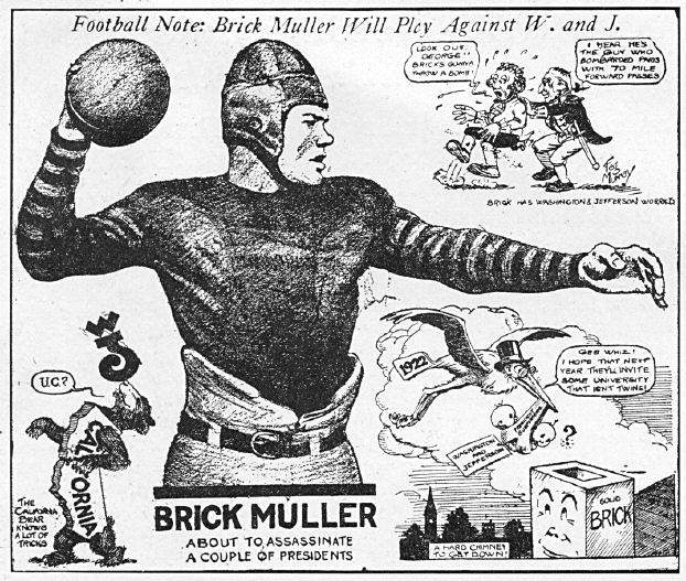 Editorial cartoon from 1922 Rose Bowl Cal's Brick Muller "about to assassinate a couple of presidents," in reference to Washington & Jefferson College. The Cal coach Andy Smith initially refused to play the Presidents because it recruited older players than the average age at Cal. He finally agreed after which this cartoon was published.